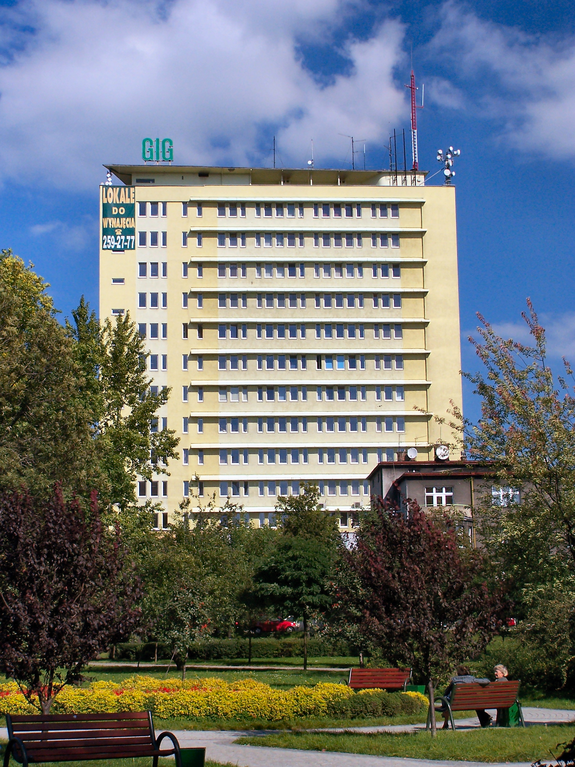 GIG building in Katowice.